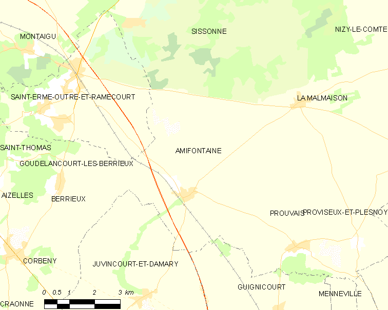 Map of French commune: Amifontaine Map commune FR insee code 02013.png